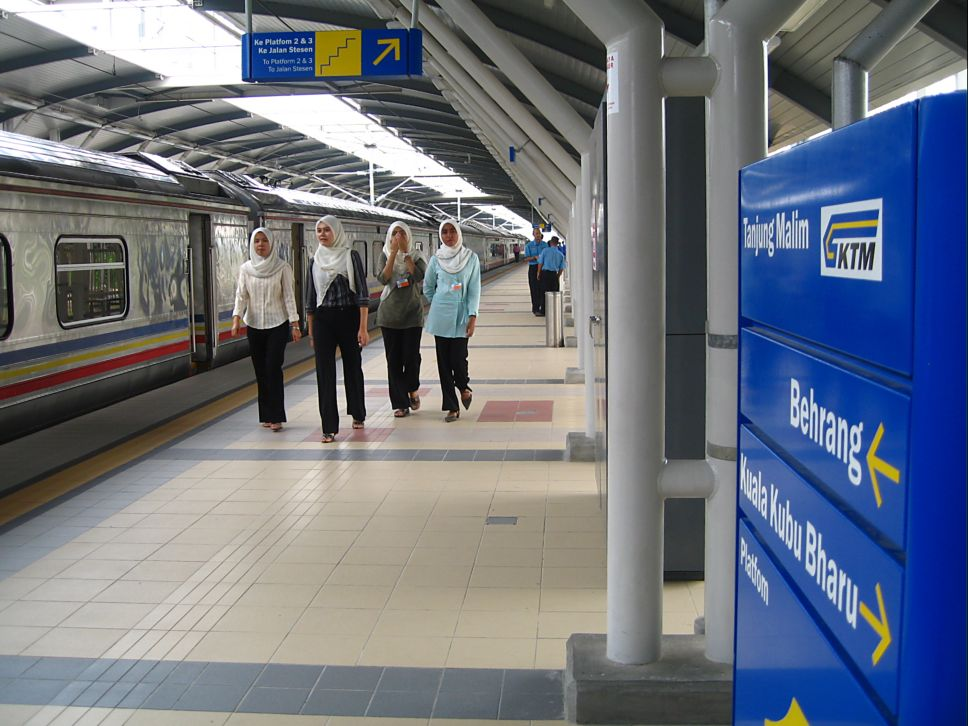 New Tanjung Malim railway station